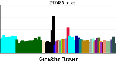 Gene expression pattern of the CALCA gene.